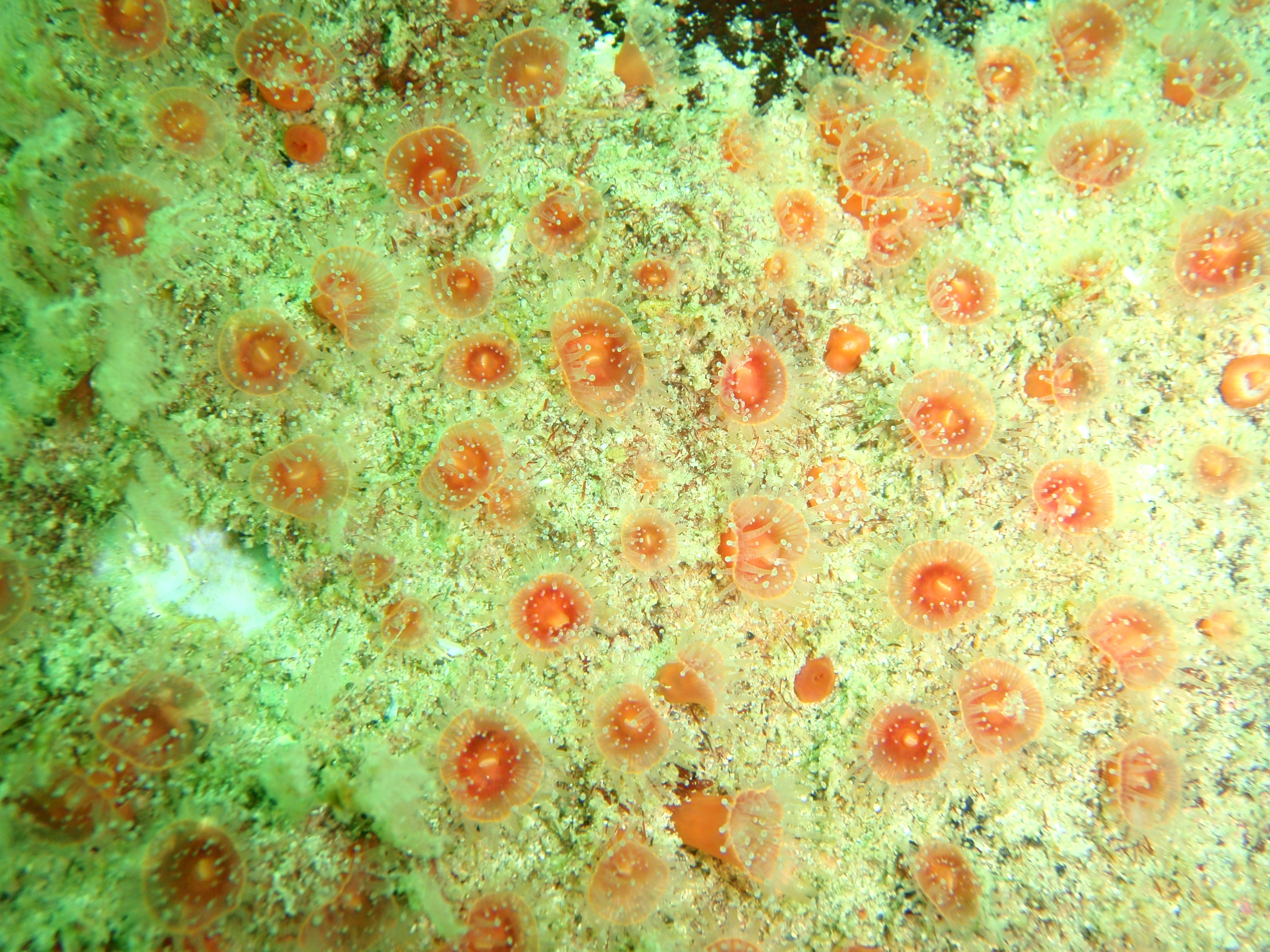 Strawberry anemones at Lorry Bay, south of Gordon's Bay on the east side of False Bay